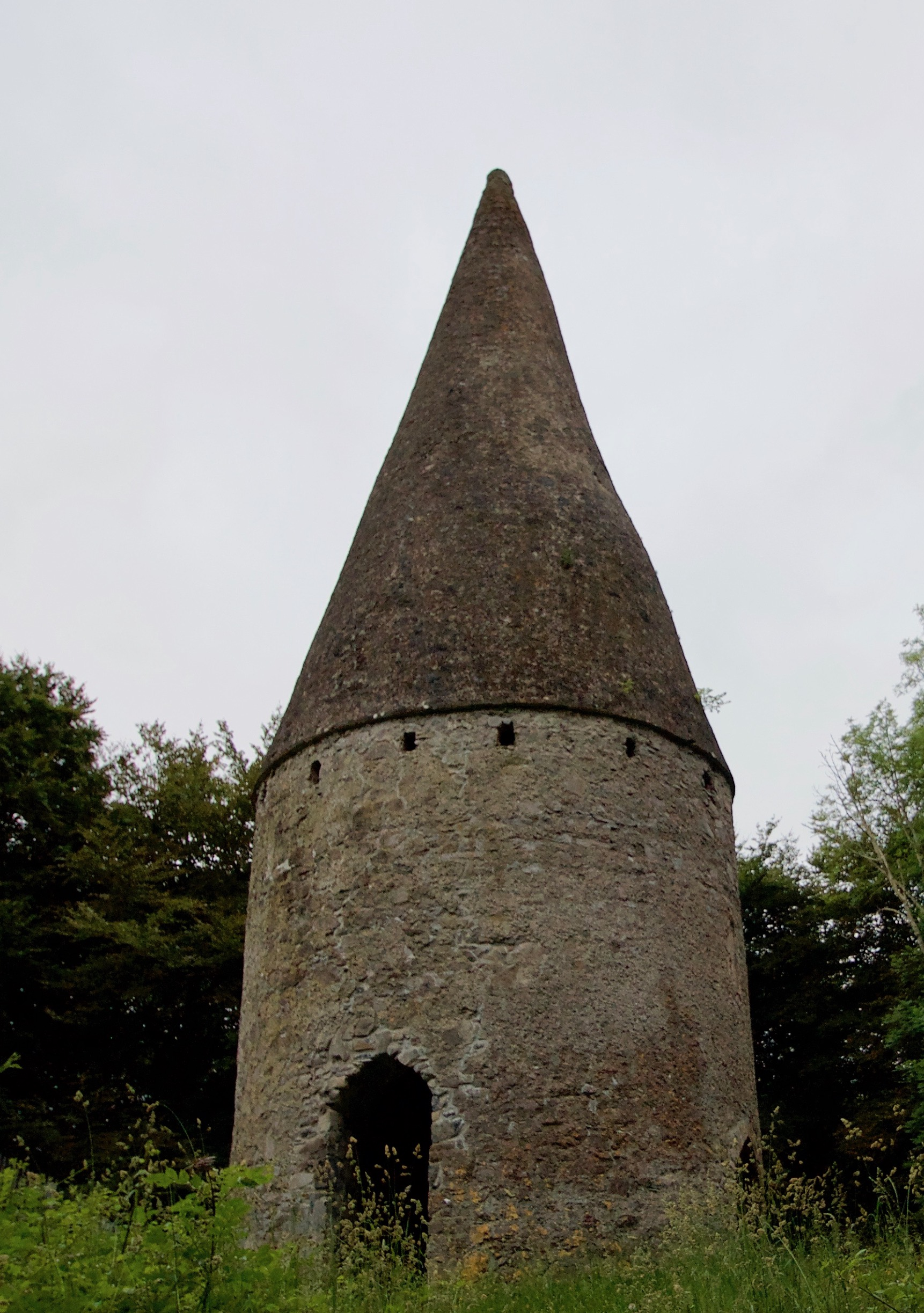 County Laois, The Spire. Wikidata has entry Q55046762 with data related to this item.